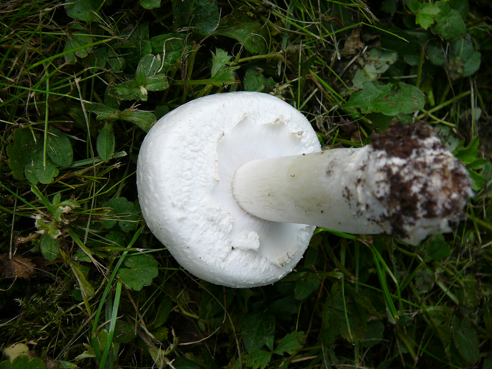 Agaricus arvensis, baby age. Stuttgart, Germany. Found in August on a lawn, around a Maple tree. 6cm of diameter. When cut: smell of anise and cap stay white. Very slow yellowish oxidation of the foot. Ring but no volva. Pinkish lamellas becoming brown as it gets old.